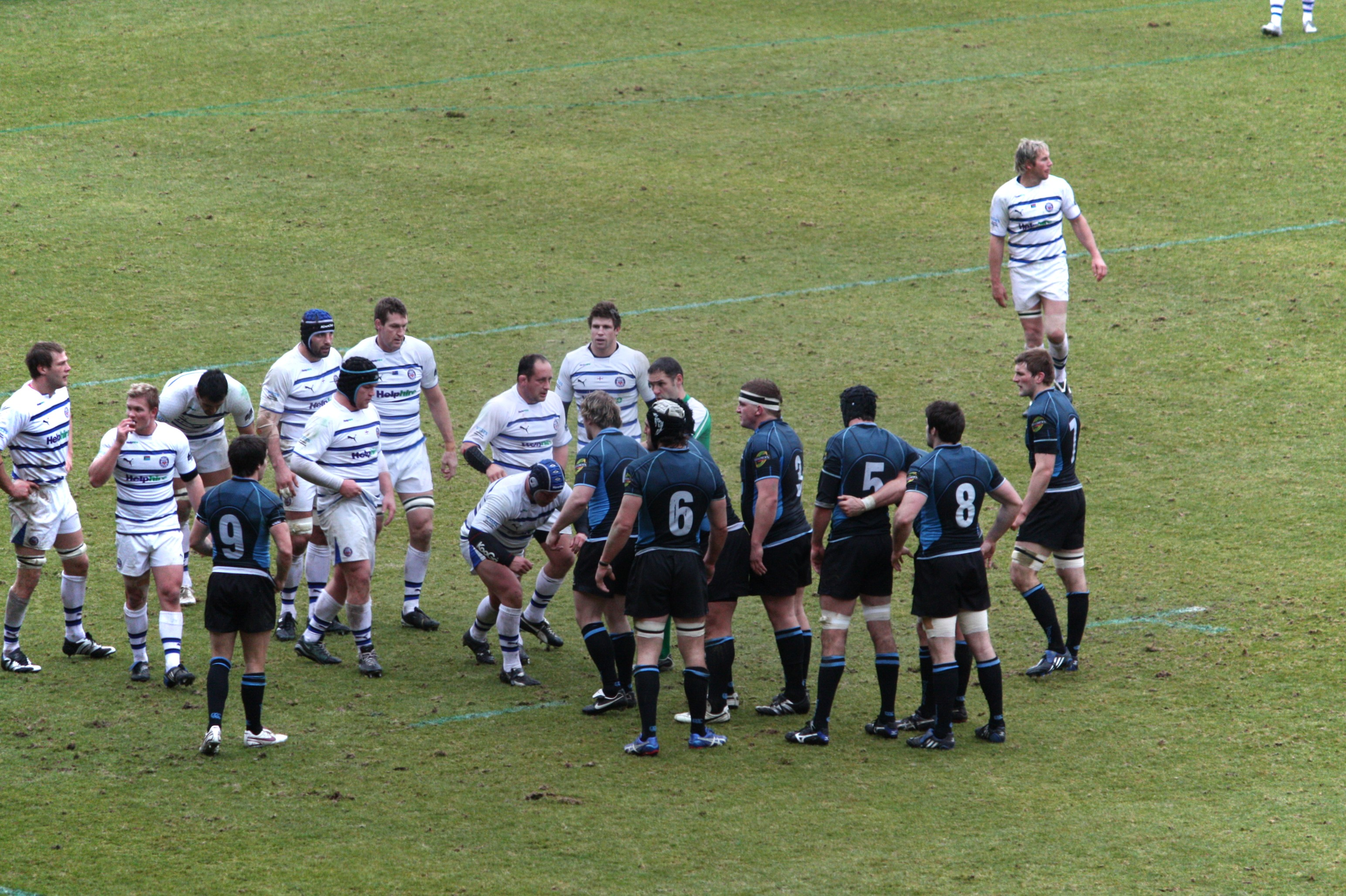 Glasgow and Bath's forwards getting ready for a scrum.